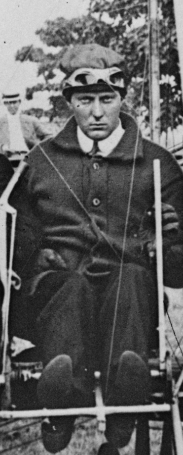 Robert G. Fowler (1884-1966) piloting his airplane on September 5, 1911. This image has been cropped from a larger image.